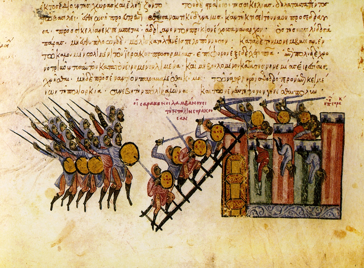 Skyllitzes Matritensis, fol. 100v, detail. Miniature: The Arab conquest of Syracuse (in 878).